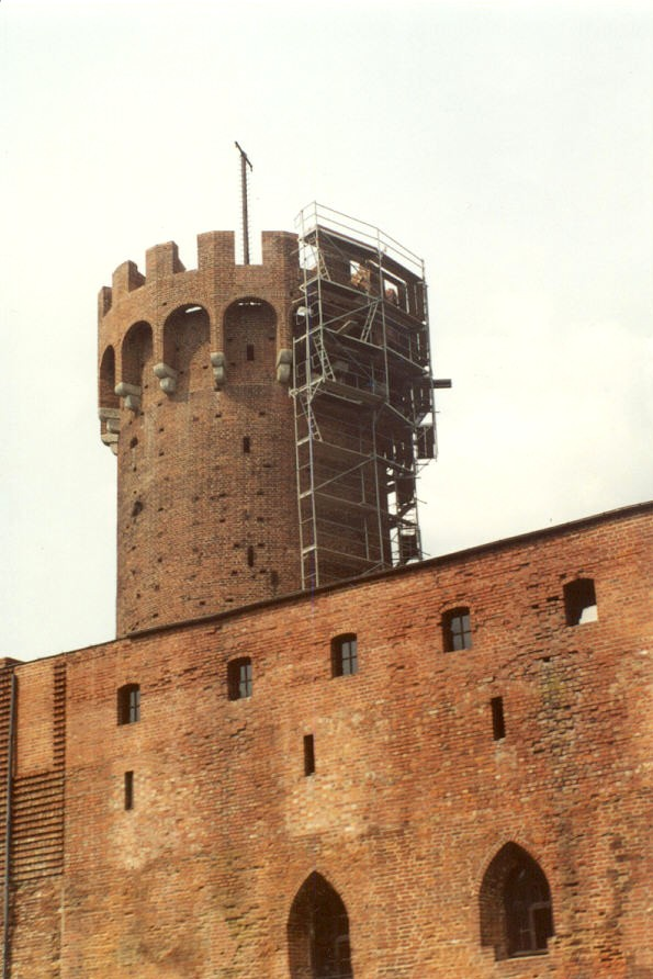 Tower of castle in Świecie, Poland